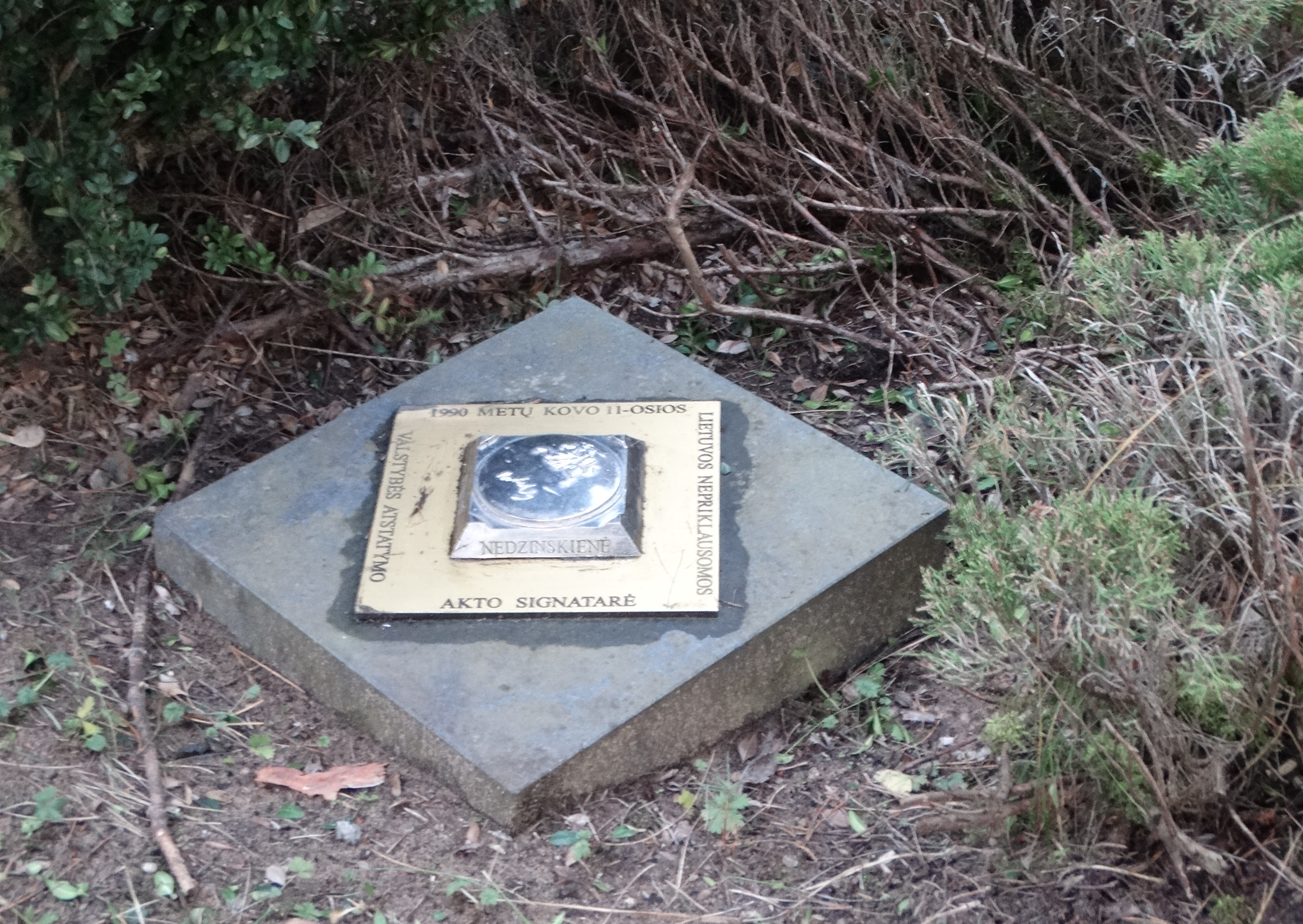 Tomb of Birutė Nedzinskienė, Žemieji Kaniūkai cemetery, Kaunas, Lithuania